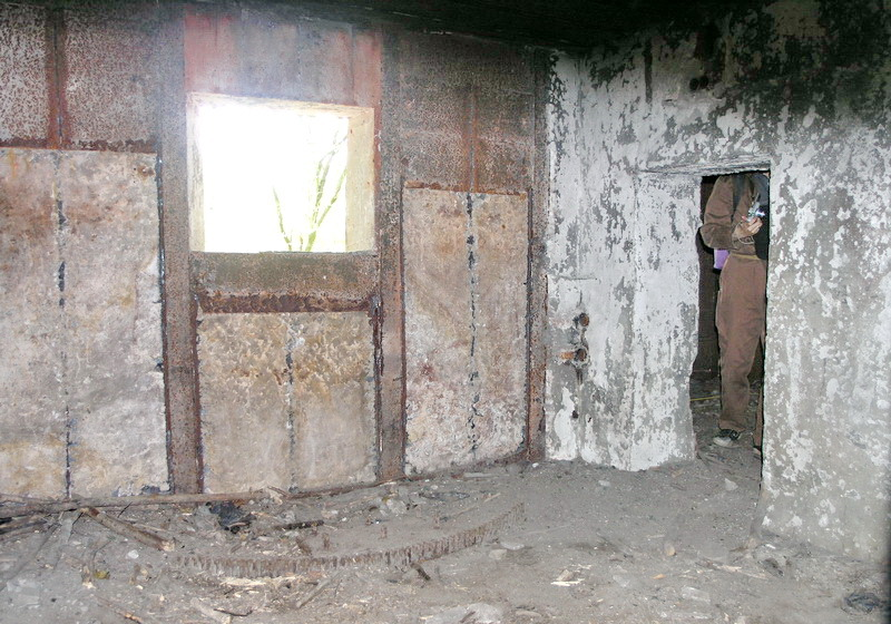 Artillery pillbox 554 in Kiev fortified region. Inner view of the cannon casemate.